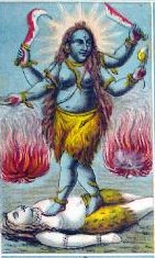 "Album of popular prints mounted on cloth pages. Colour lithograph, lettered, inscribed and numbered 37. The print is subdivided into ten equal parts, each representing one of the ten aspects of Devi, the divine mother. Each image is identified with a Bengali inscription, and the goddesses represented are: Kali, Tara, Shodashi, Bhuvaneshvari, Bhairavi, Chhinnamasta, Dhumavati, Bagalamukhi, Matangi, and Kamala. 2003,1022,0.37, AN804243 "